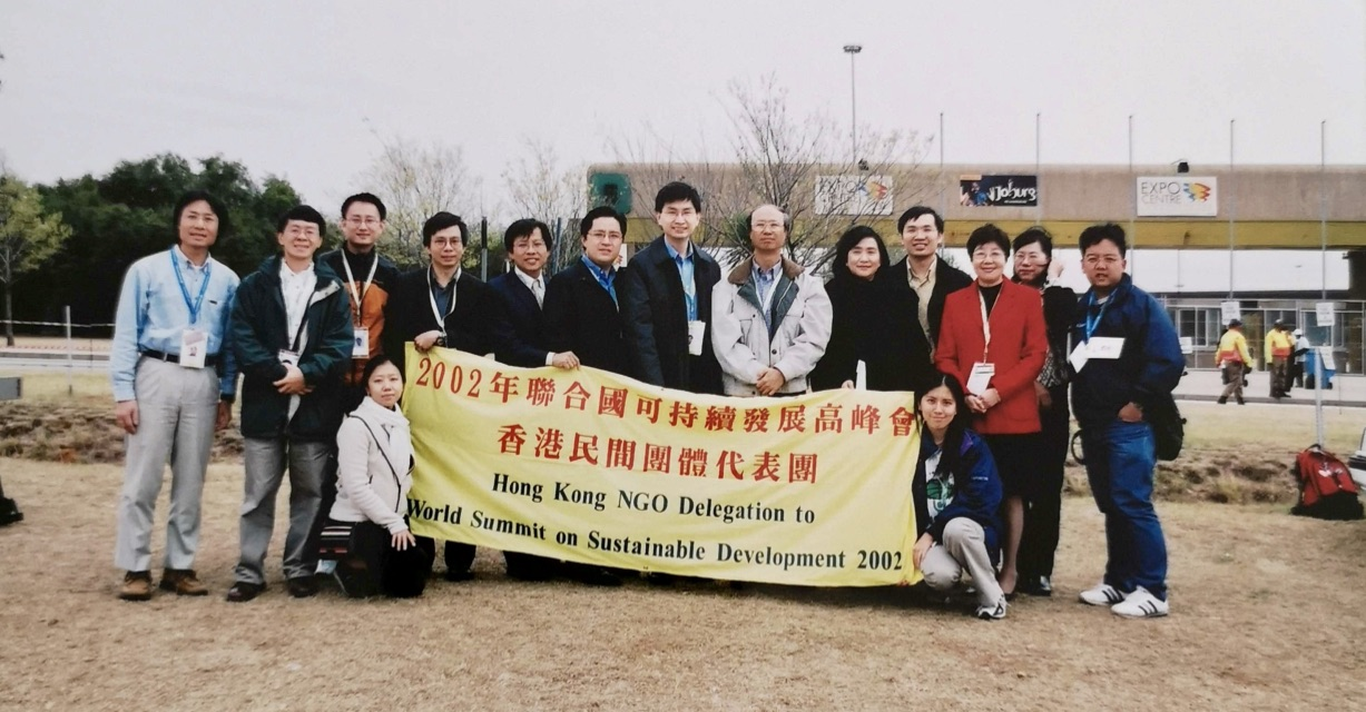 Ng Cho-nam (second left) and the HK NGO Delegation for the 2000 World Summit on Sustainable Development